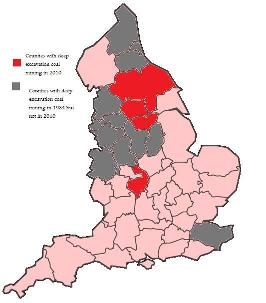 Coal mining in England by county. Red shows counties where deep excavation mining still takes place (Note: Kellingley Colliery lies along the border between North and West Yorkshire thus qualifying them both). Grey shows counties where mining took place in 1984 at the time of the most recent miners' strike.